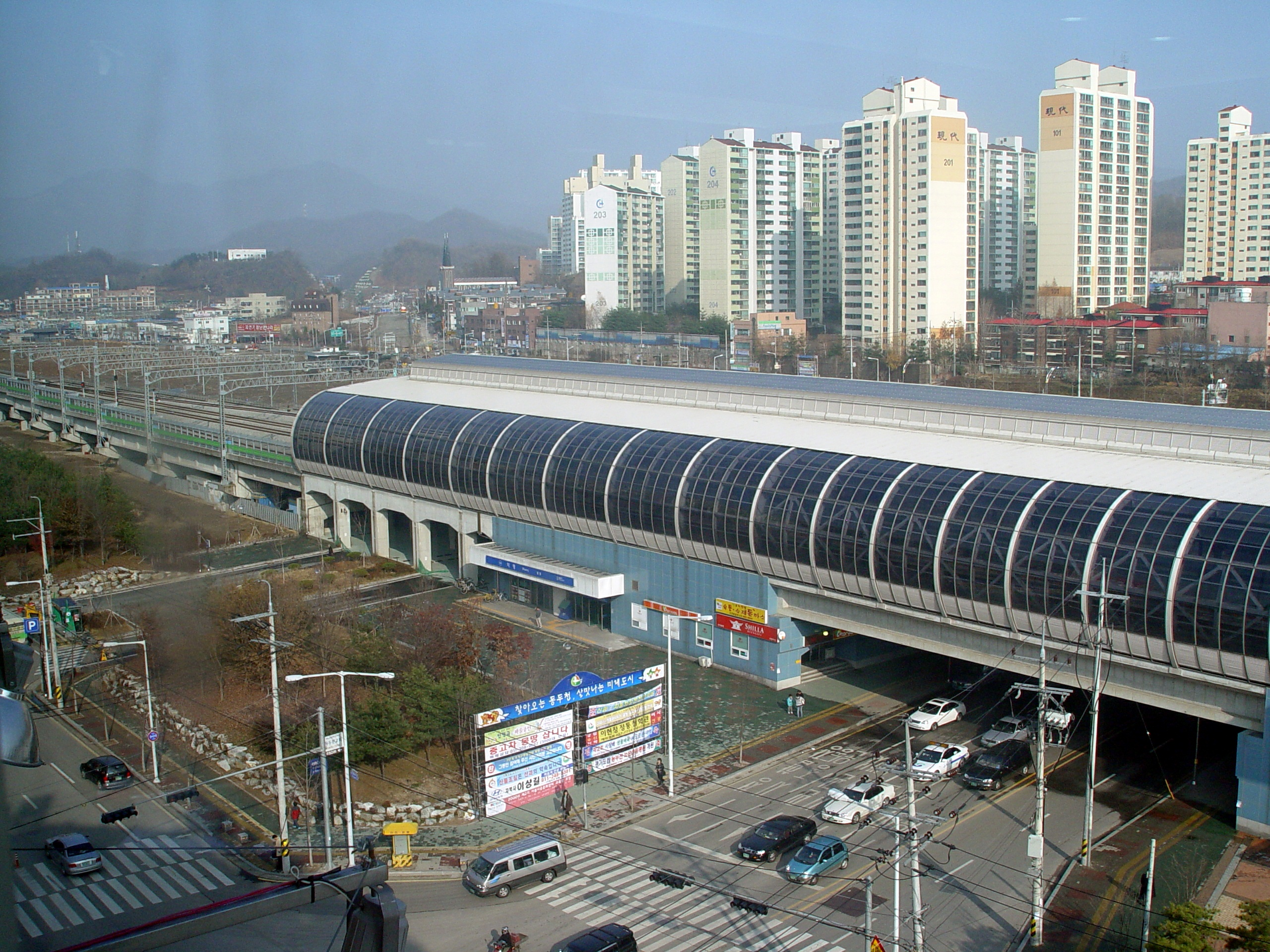 Jihaeng Station and tracks north